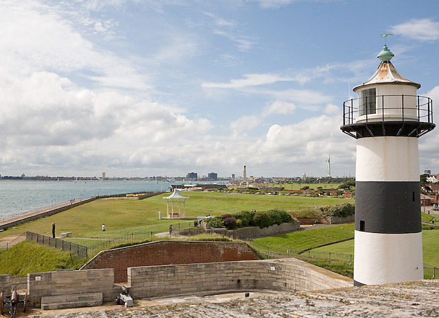 View of coastline from ramparts of Southsea Castle The lighthouse is still operational. This view is looking towards West Battery, with the RN war memorial sticking above the horizon beyond.